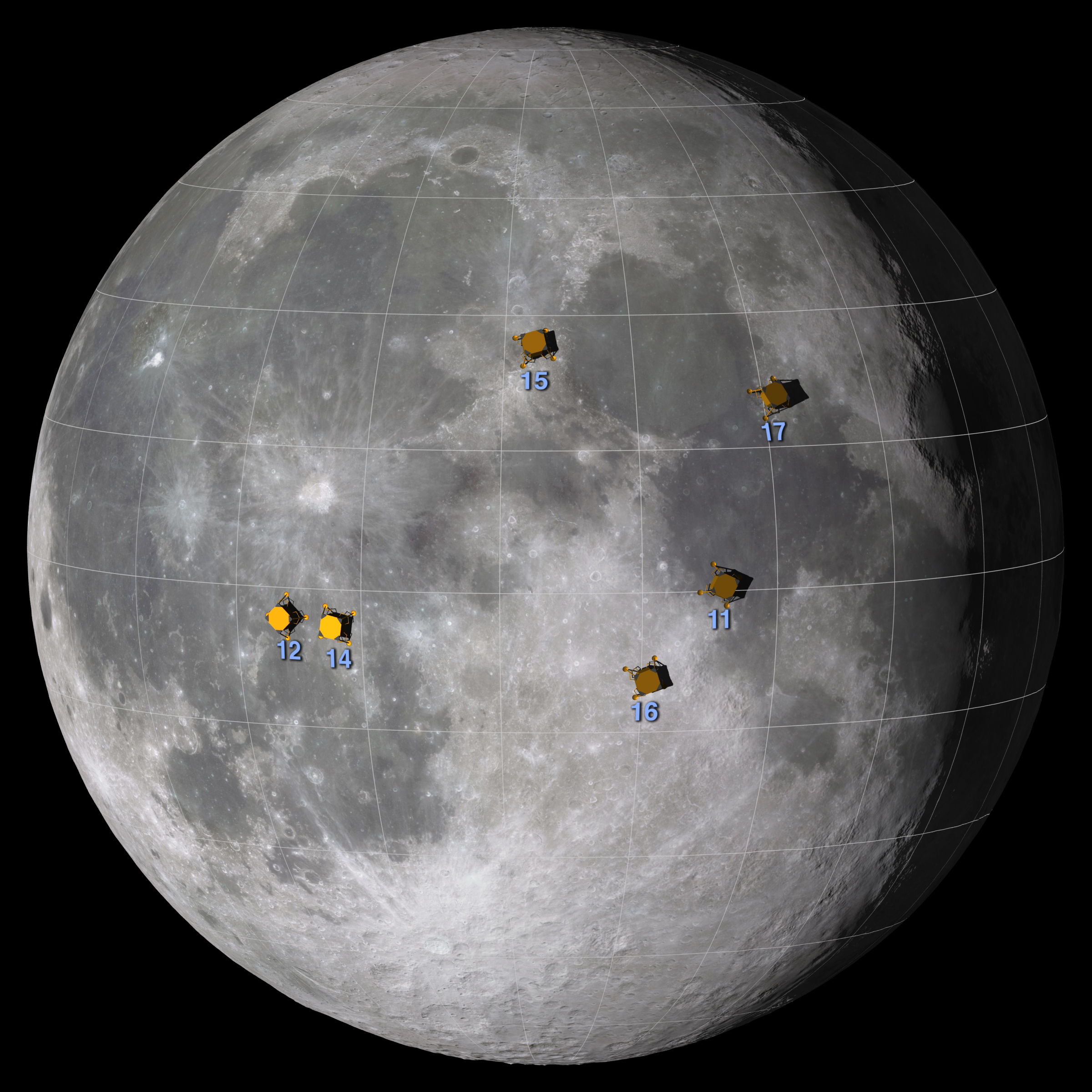 Map of Apollo landings on the Moon.